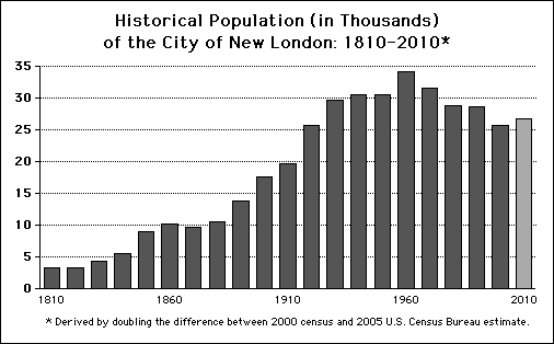 Bar graph of New London, Connecticut population 1810-2000 from Connecticut State Register and Manual plus 2010 projection based on U.S. Census Bureau estimate for 2005.